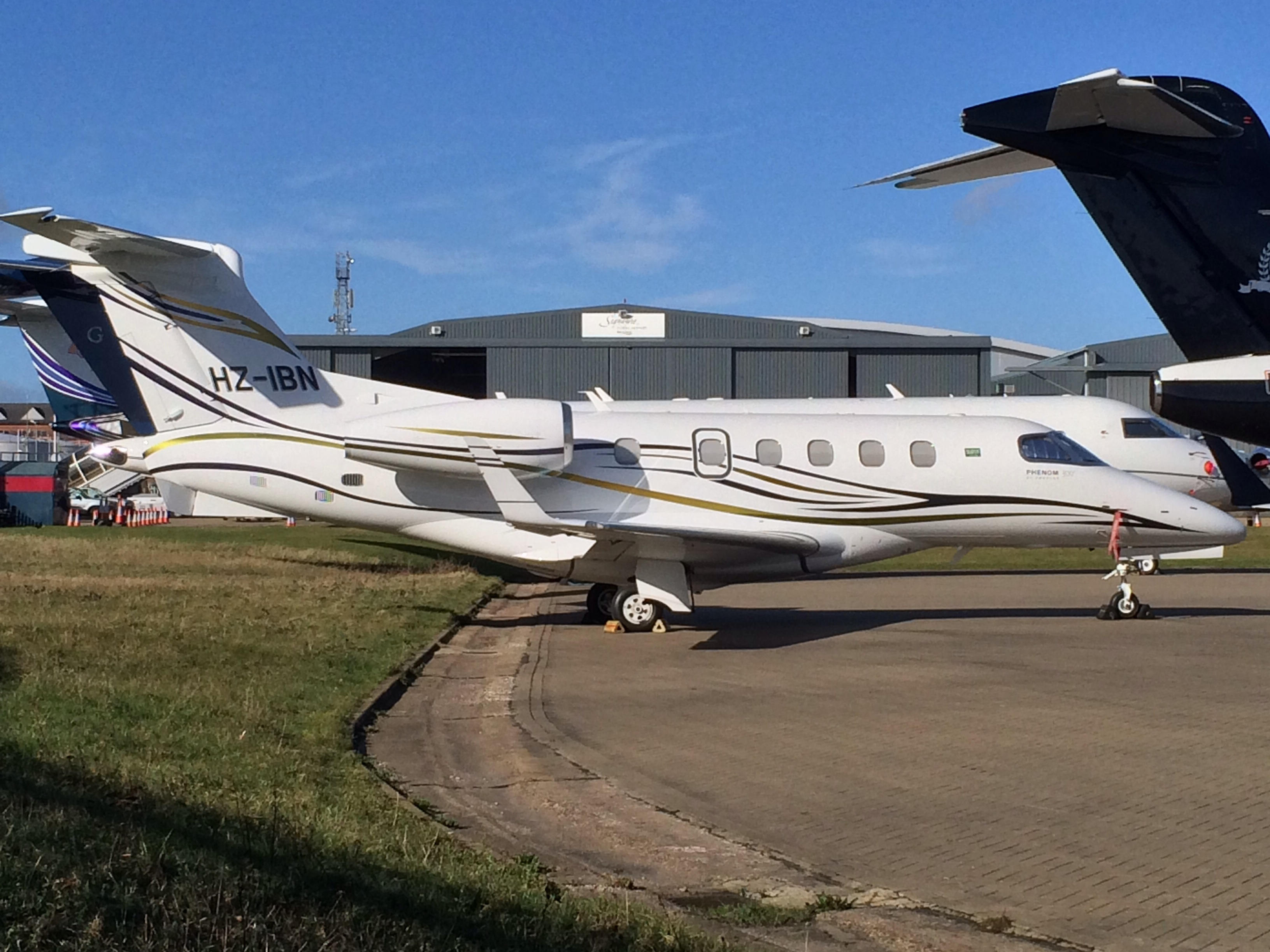 At London Luton